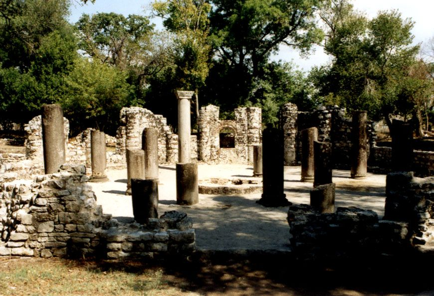 Remains of the baptistery in Butrint, Albania